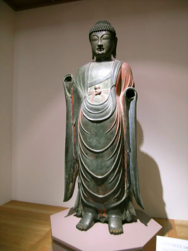 This standing statue of the Bhaisajyaguru Buddha is made of gilt bronze with pigments, H. 179 cm. Silla kingdom, Late period, late 8th century. From Baengnyulsa Temple. Korea's National Treasure No. 28 held at the Gyeongju National Museum.